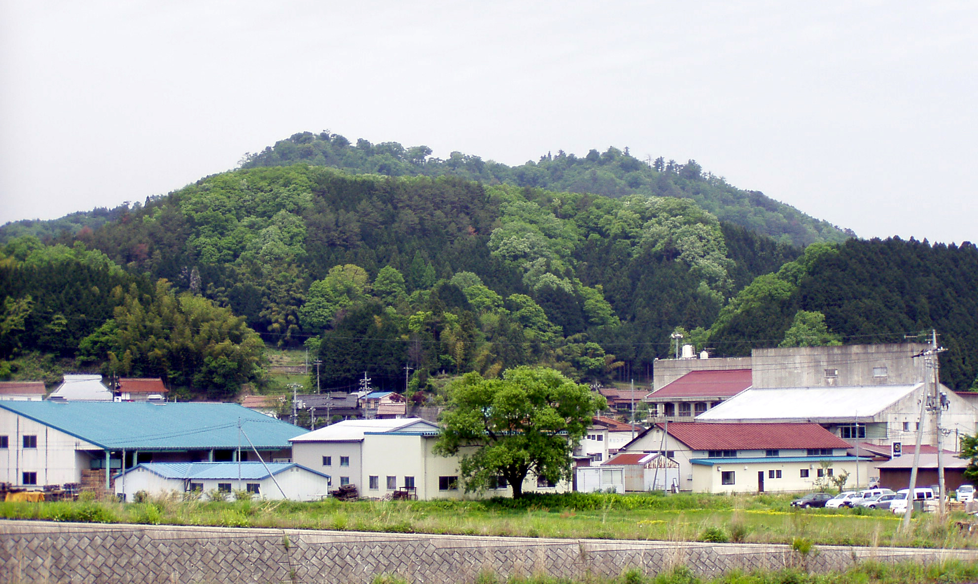 Hutatsuyama castle